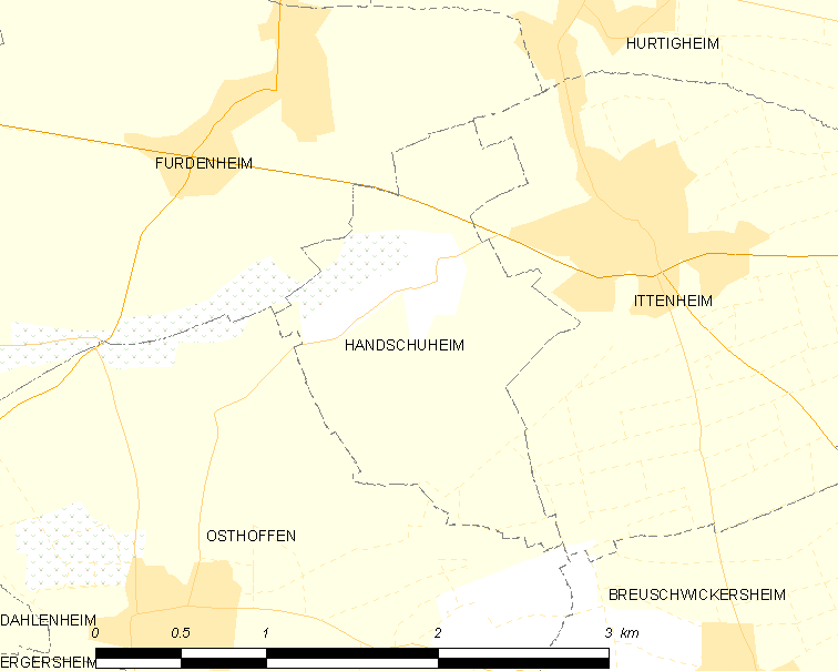 Map of French municipality